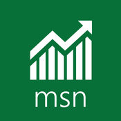 Microsoft Money logo.